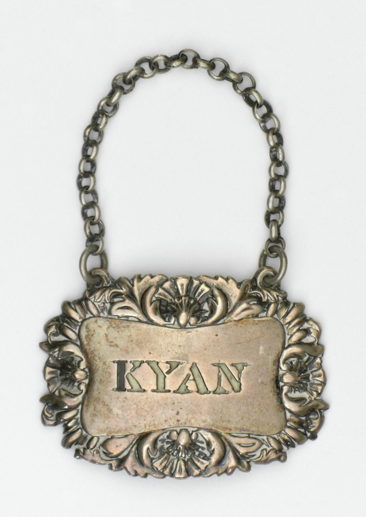 England, London, circa 1780-1810 Furnishings; Accessories Silver Gift of Mr. B. L. Stilphen (M.62.41.14f) Decorative Arts and Design